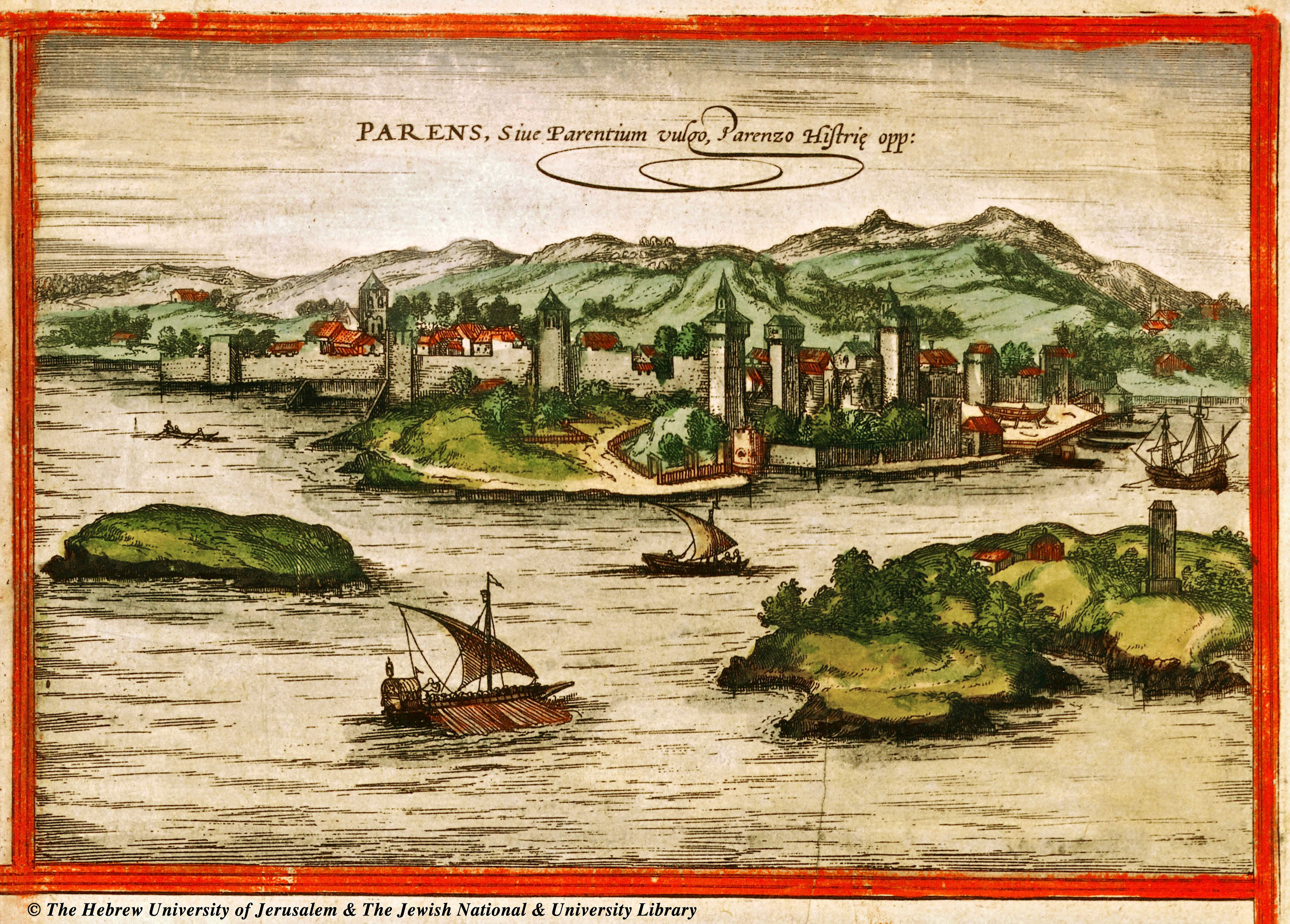 Parens (Poreč) - Woodcut from: Braun & Hogenberg, Civitates Orbis Terrarum II 52